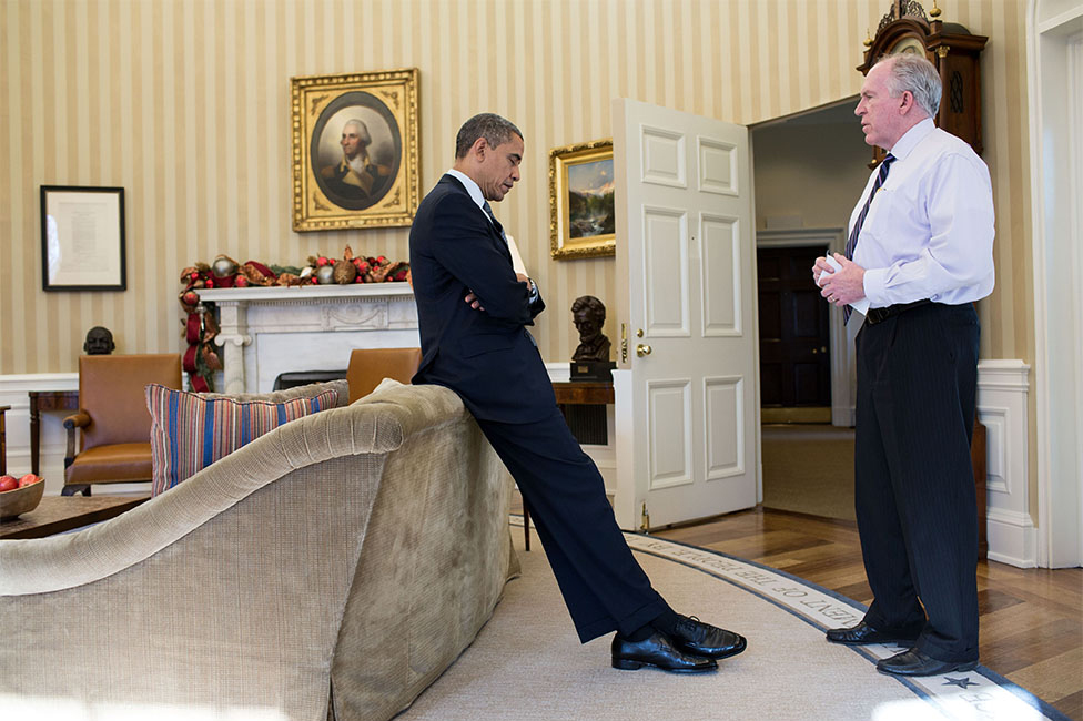 "The President reacts as John Brennan briefs him on the details of the shootings at Sandy Hook Elementary School in Newtown, Conn. The President later said during a TV interview that this was the worst day of his Presidency." (Official White House Photo by Pete Souza)